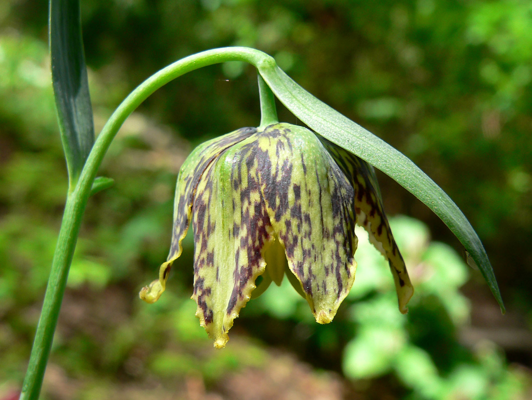 Photo of Fritillaria affinis at the Regional Parks Botanic Garden, Berkeley, California